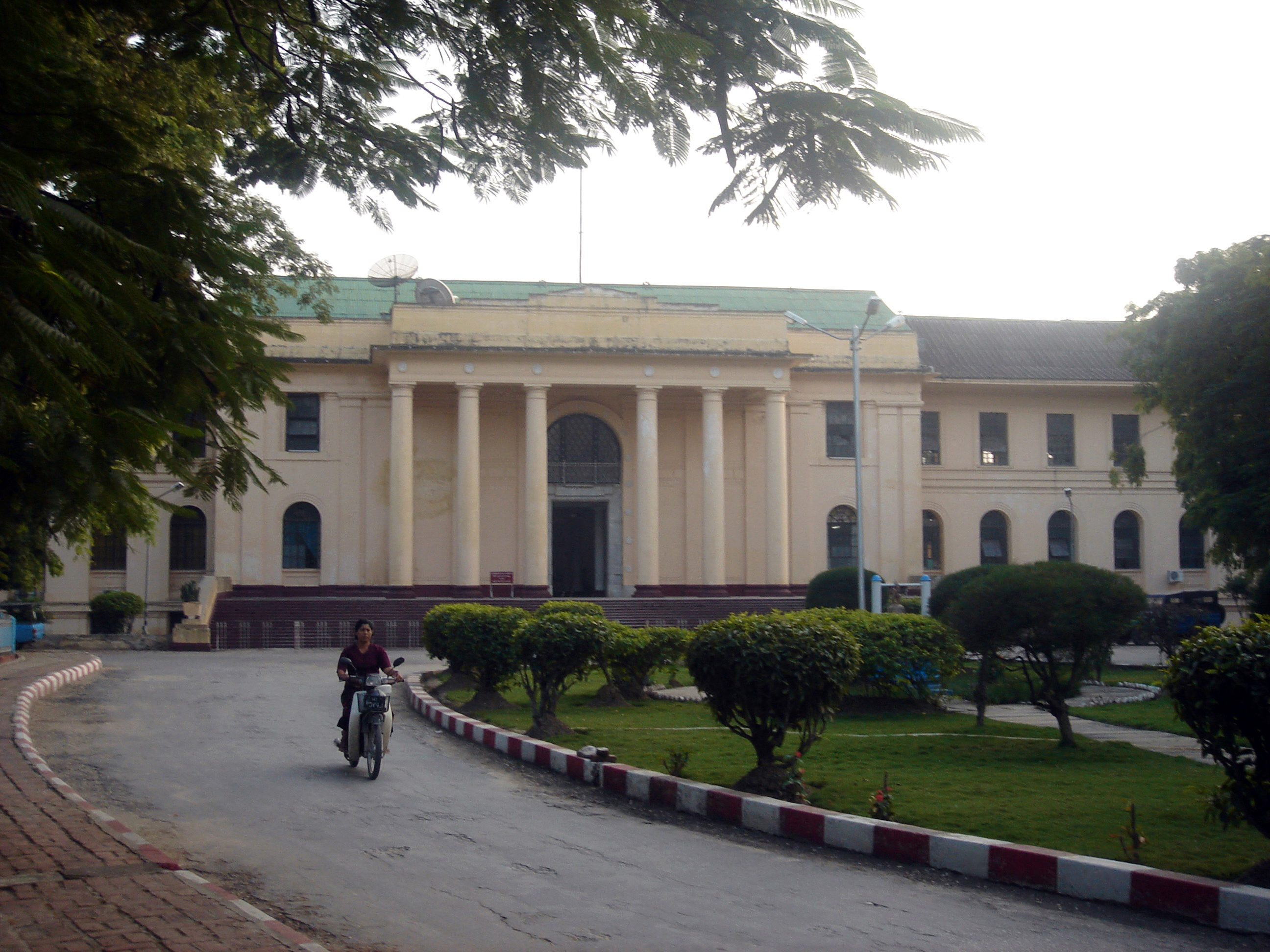 Mandalay, Mandalay District, Mandalay Division, Union of Myanmar Photo of main building of University of Mandalay